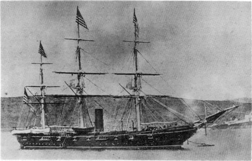 The screw sloop USS Tuscarora after the American Civil War tied up to mooring buoy with ensigns at her masthead to celebrate a holiday. US Navy photo # NR&L(O) 2806 from the collections of the US Naval History and Heritage Command.